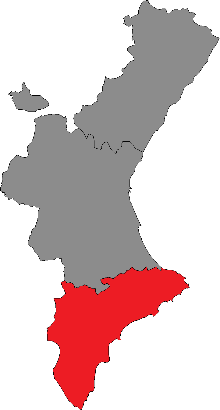 Valencian Courts district of Alicante.